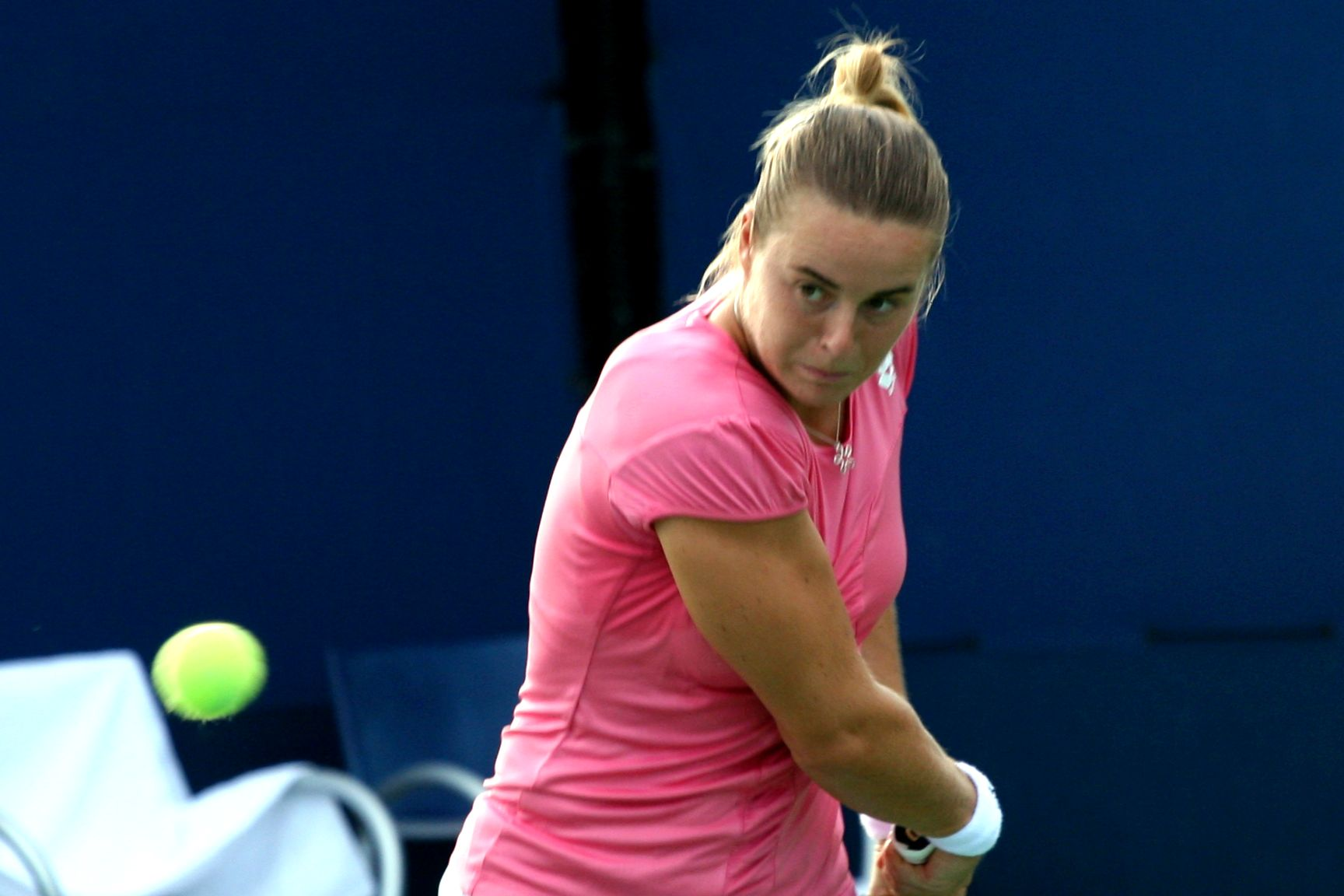 Anastasiya Yakimova at the 2011 U.S. Open; Monday, August 29, 2011